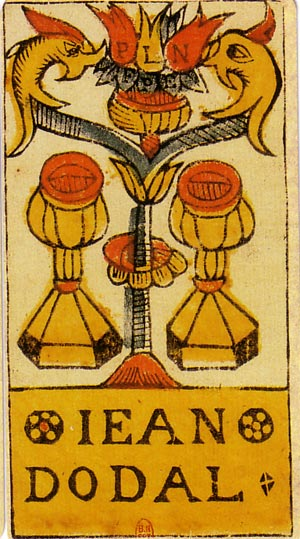 An original card from the tarot deck of Jean Dodal of Lyon, a classic Tarot of Marseilles deck which dates from 1701-1715.